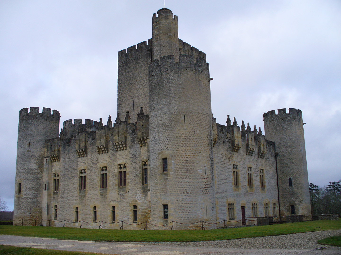 Roquetaillade in December 2006.